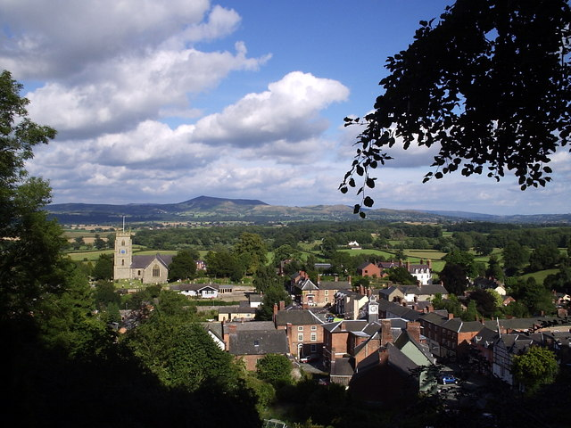 View across Montgomery towards Long Mynd